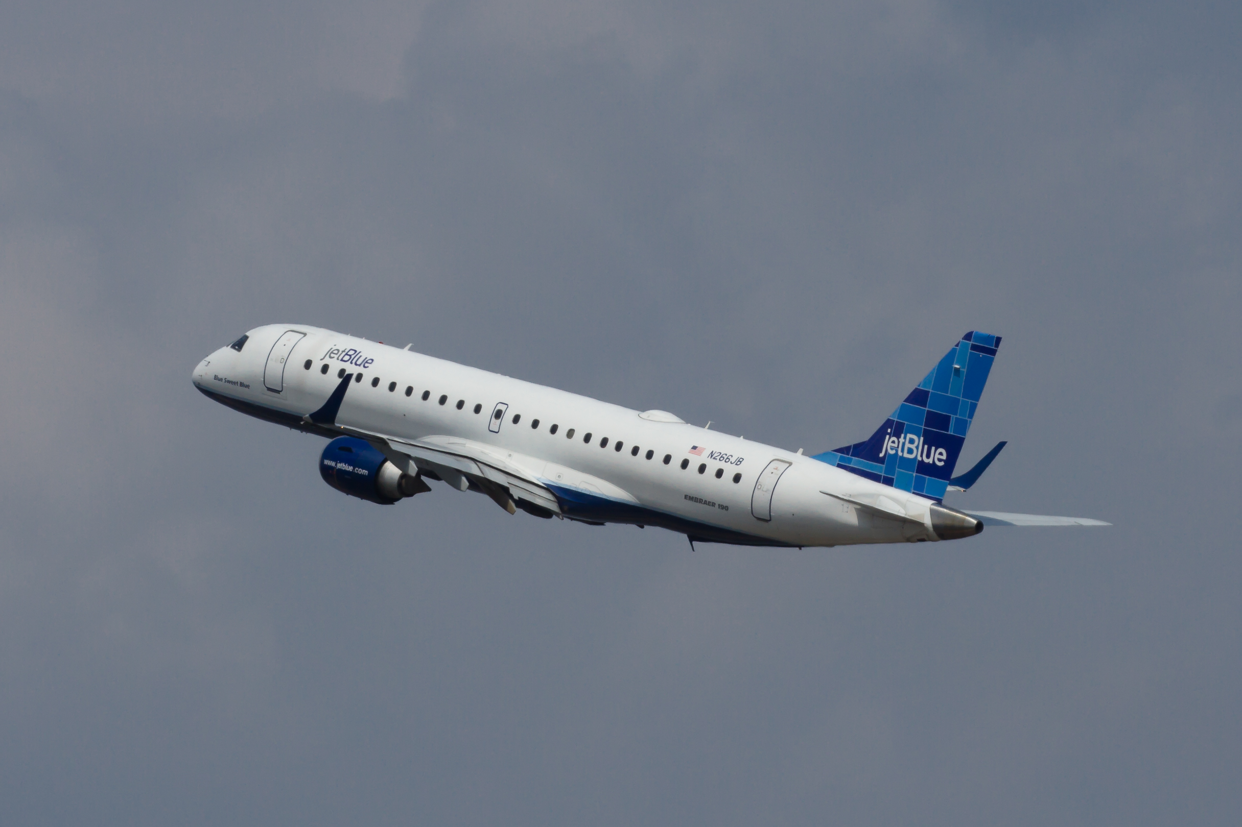 A JetBlue's Embraer 190 taking off Ronald Reagan's airport in Washington.